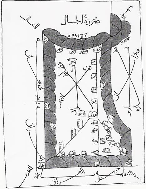 Map of Jibal (Mountains of Eastern/Northern Mesopotamia), Highlighting Summer and winter resorts of the Kurds", the Kurdish lands, in the middle of the map. From the book Surat al-Ard, 977 AC, by Ibn Hawqal.